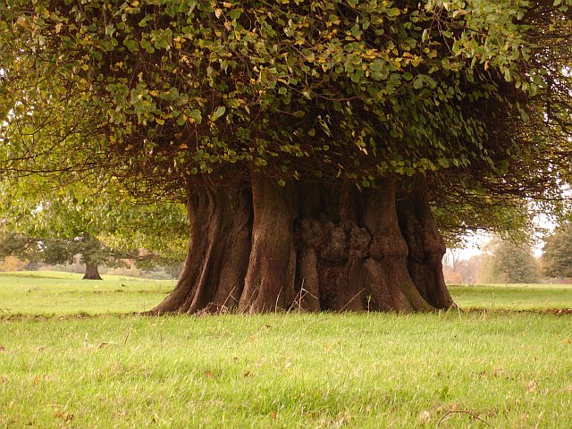 Ancient lime tree. In an avenue leading to Chilston Park from Bowley Road. Since the house is listed as "Late C15 or early C16 with C17, C18 and C19 alterations" it seems reasonable to assume this tree (and its fellows) is at least 200 years old. For a view of the avenue see 77100